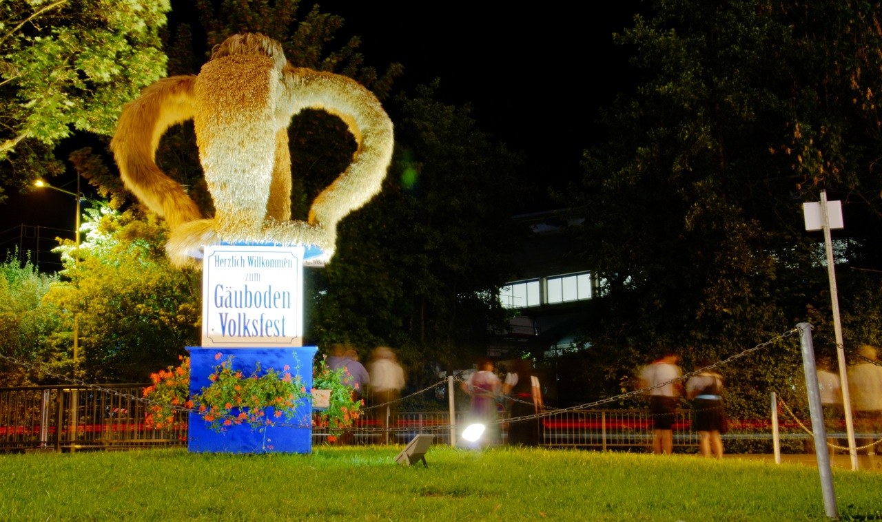 Gäubodenvolksfest 2011 - Erntekrone at Night